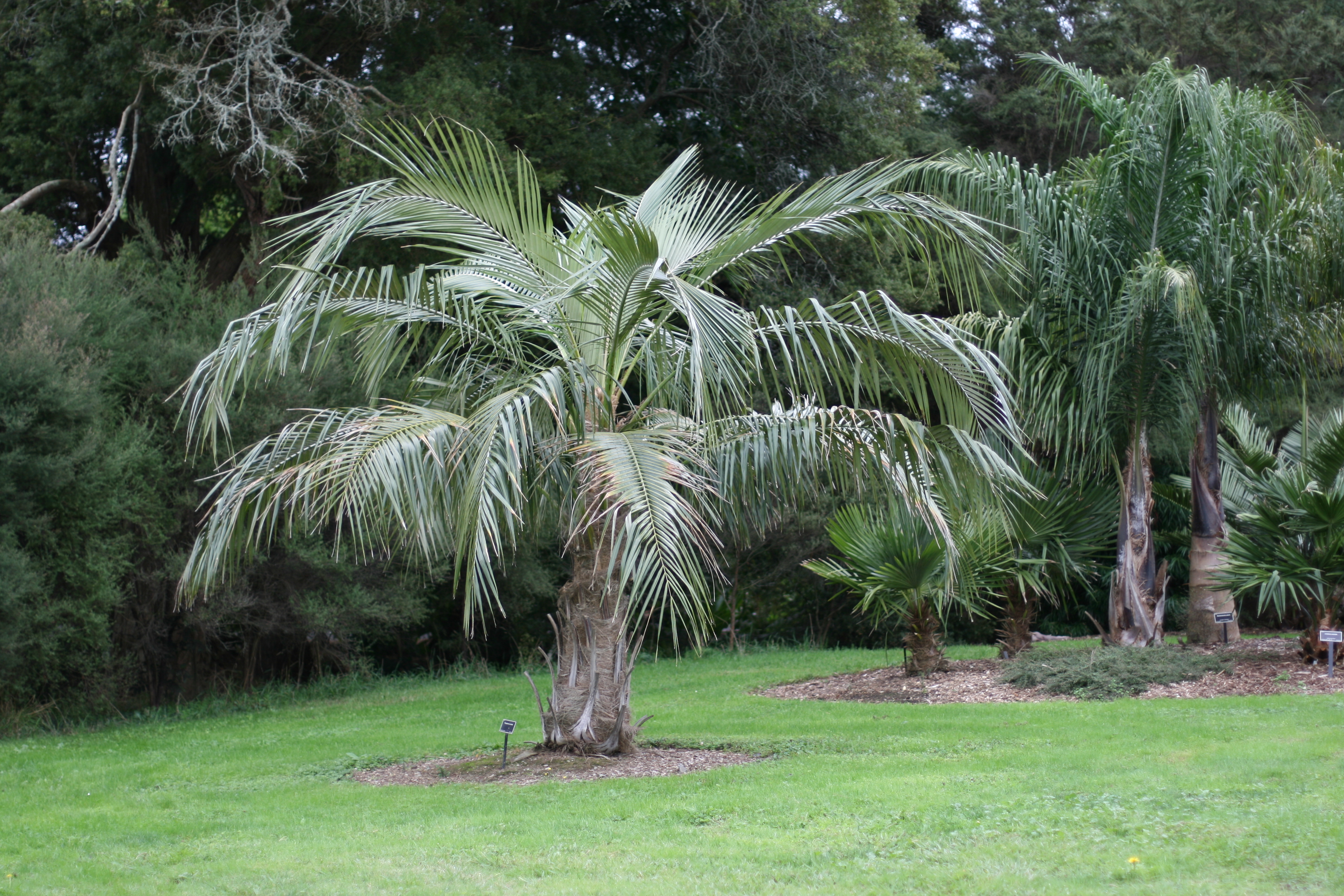 Parajubaea cocoides, specimen at Auckland Botanic Gardens, Manukau City, New Zealand